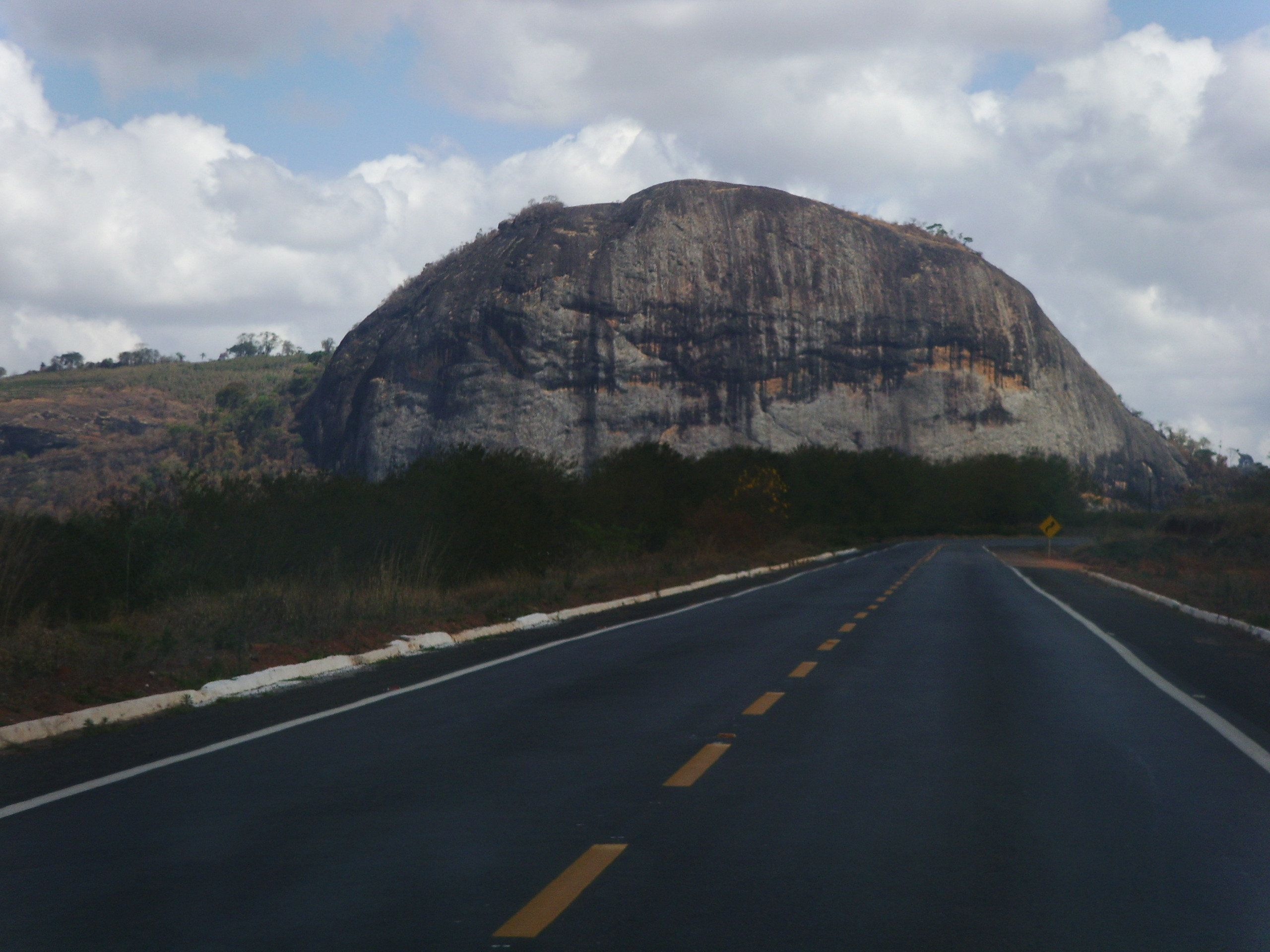 Campestre - State of Minas Gerais, Brazil